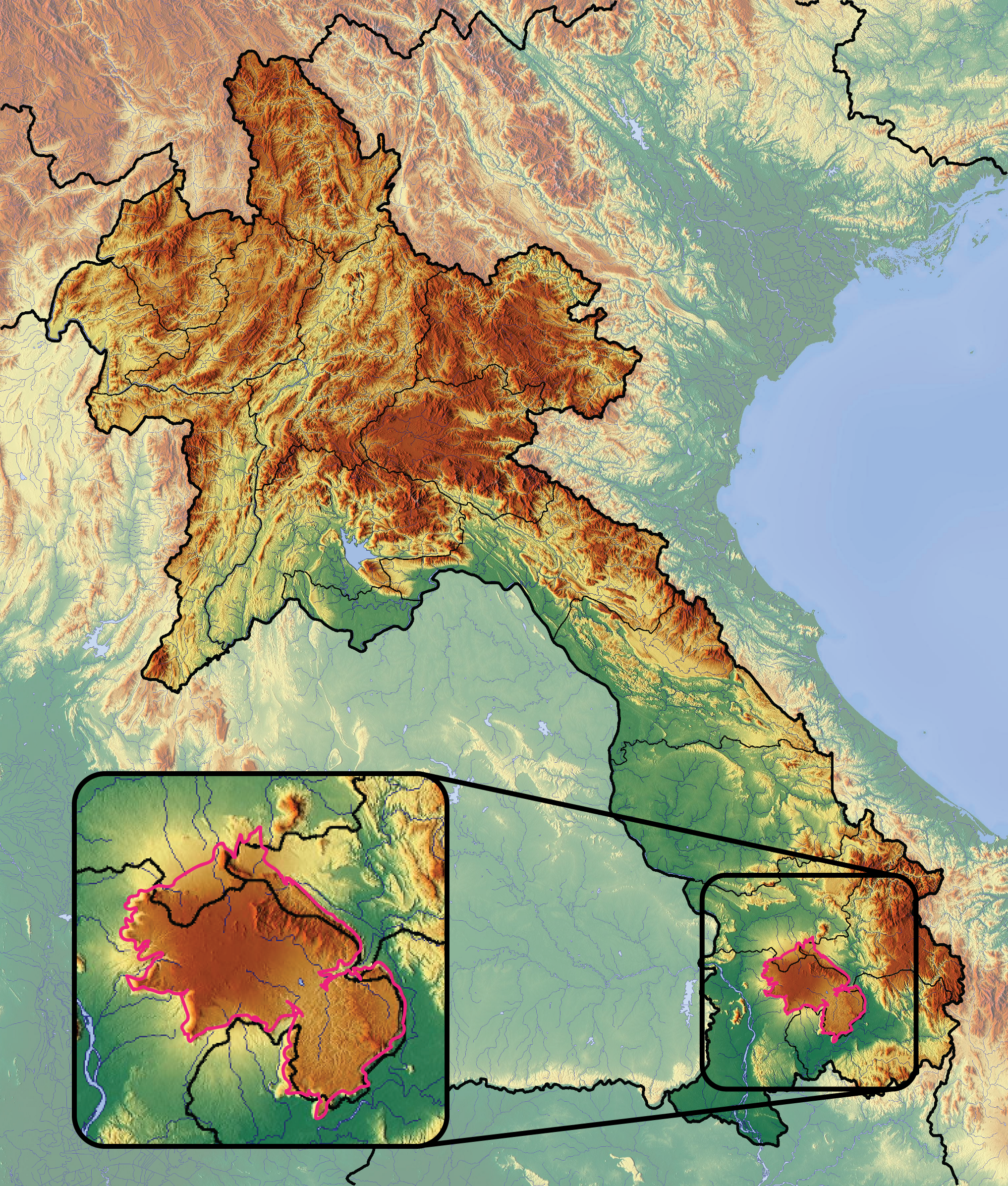 The Bolaven Plateau on a Laos topographic map.